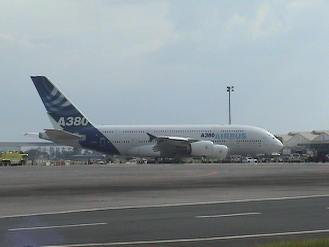 On October 11, 2007, an Airbus A380 MSN009 test aircraft landed in NAIA and demonstrated that it can be used under normal airline operating conditions.[2] At 2:45 p.m., the plane touched down through NAIA’s longest runway, the 3,700-meter long 06/24 runway. Manila was part of the aircraft’s test flight technical routes. It also visited South America, the Middle East and Asia-Pacific (aimed at accumulating 150 hours of “typical airline” continuous operation using the new Engine Alliance GP7000 engines manufactured by General Electric and Pratt and Whitney).